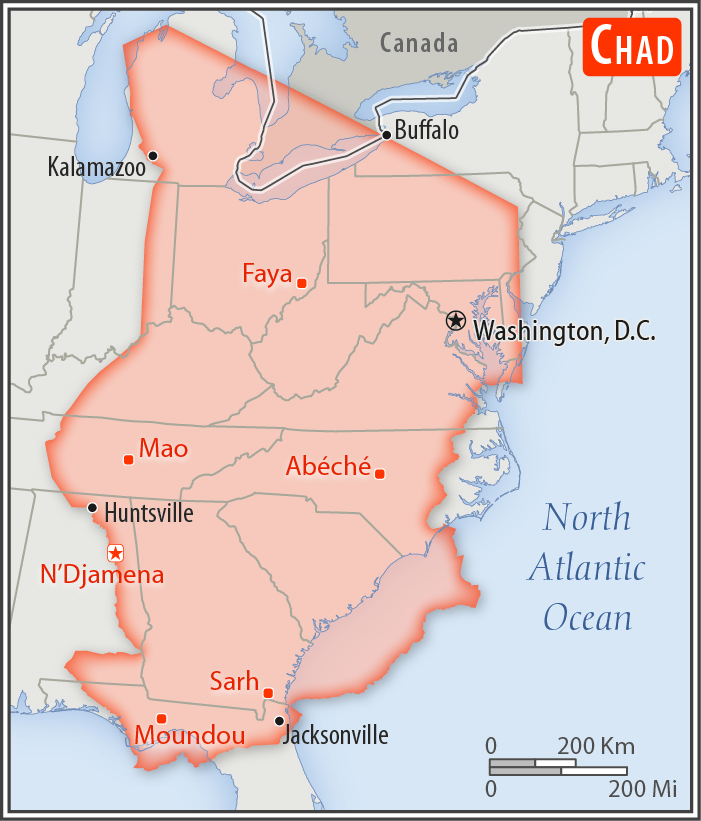 Comparison of the areas of two country. The area of Chad with biggest cities (red) overlay the area of the United States of America (gray background).